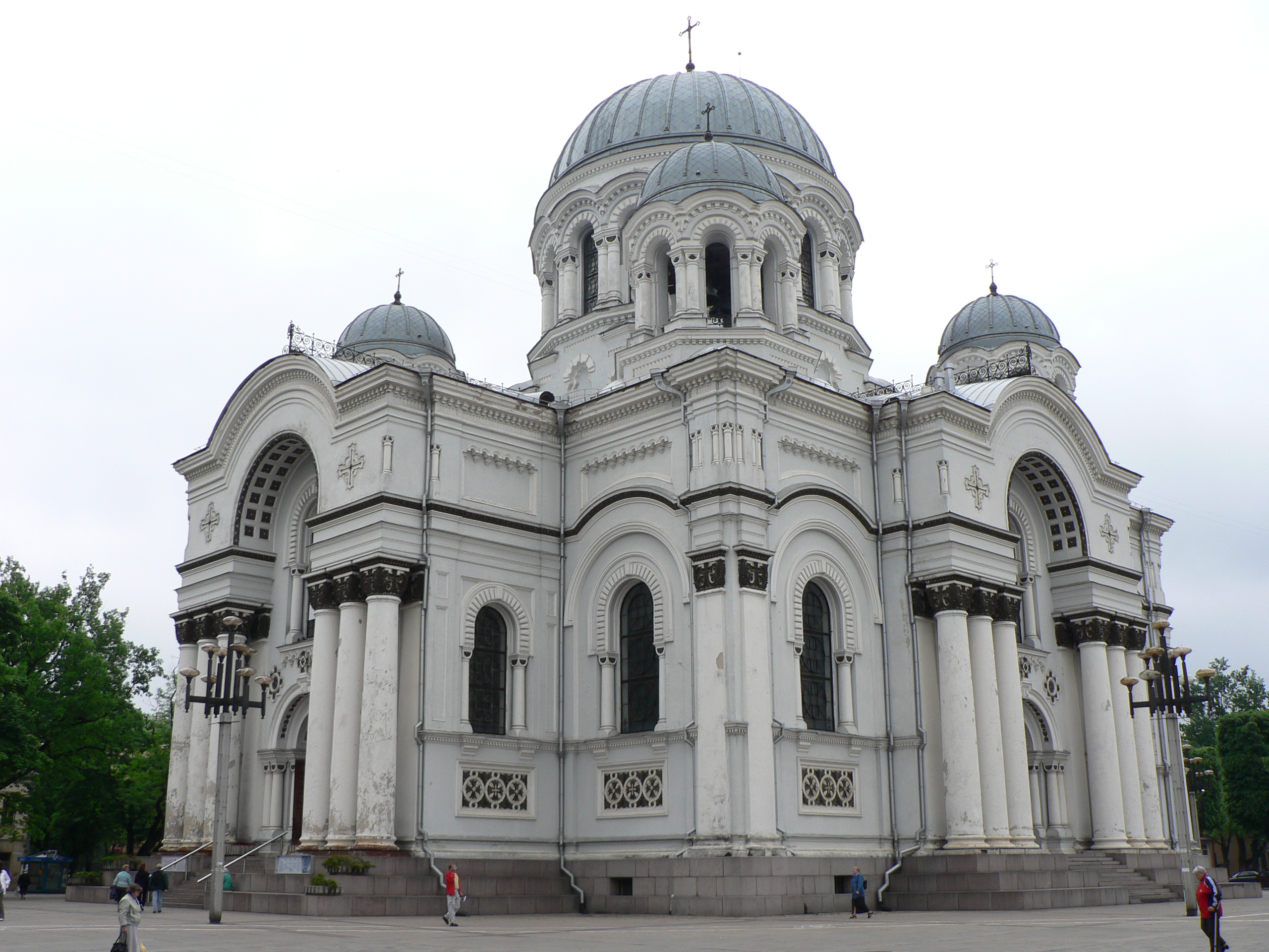 St. Michael Archangel church in Kaunas, Lithuania.